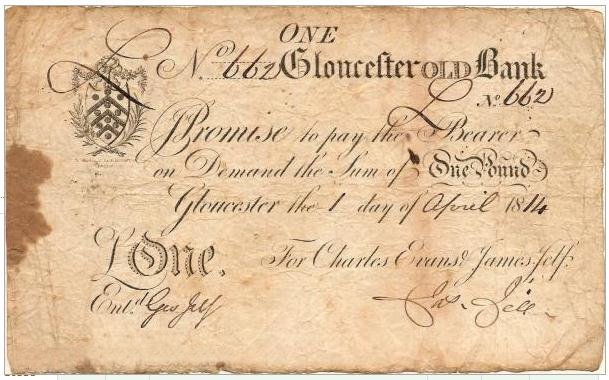 An 1814 one pound bank note from Gloucester Old Bank for Charles Evans and James Fell.